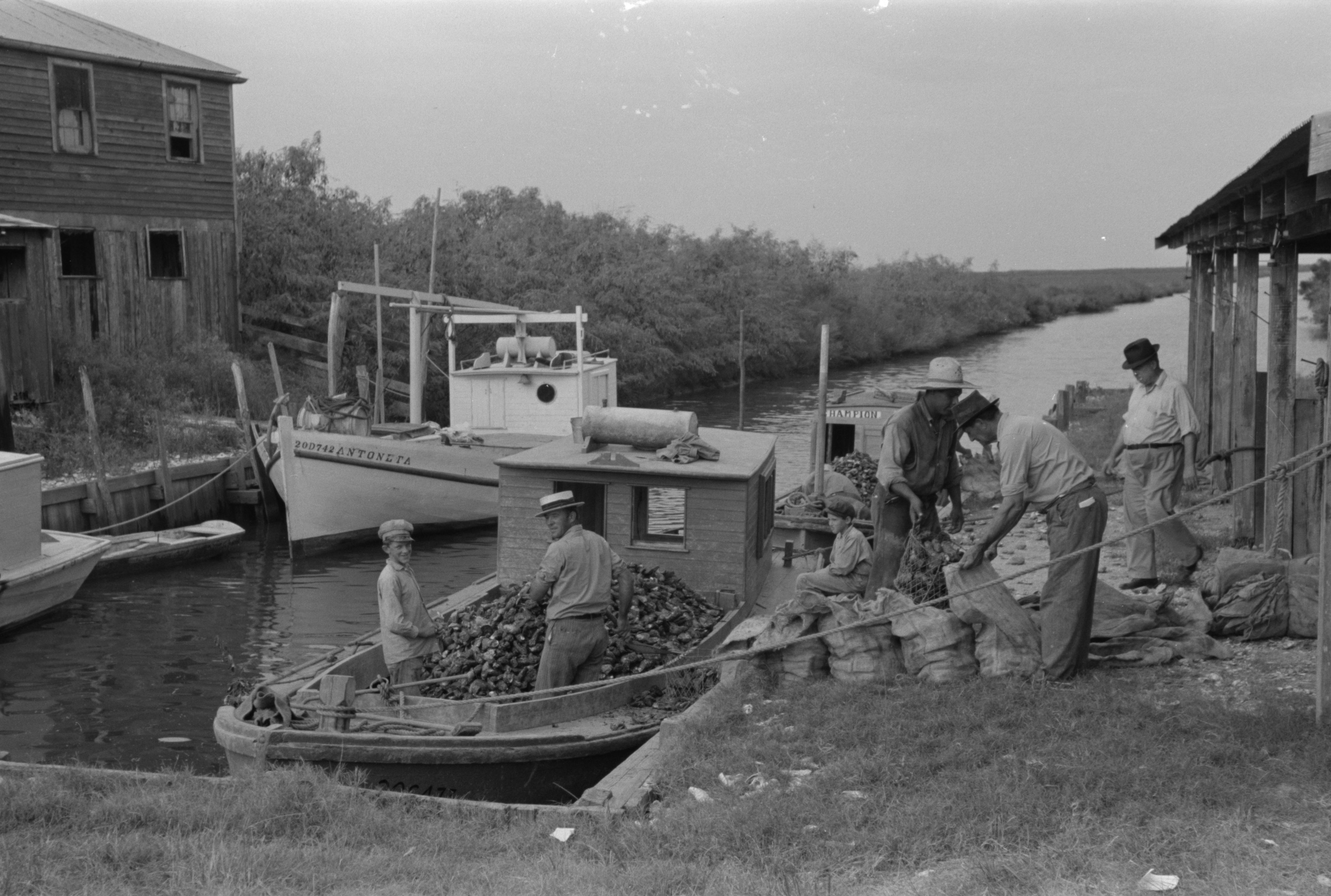 "Unloading oysters from small boats, Olga, Louisiana." 1938. Canal leads out into Gulf of Mexico.